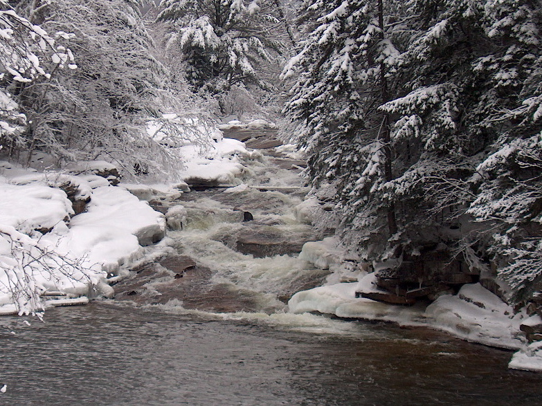 Lower Falls of the Ammonoosuc River in winter. Photo by Ken Gallager, January 2, 2006.